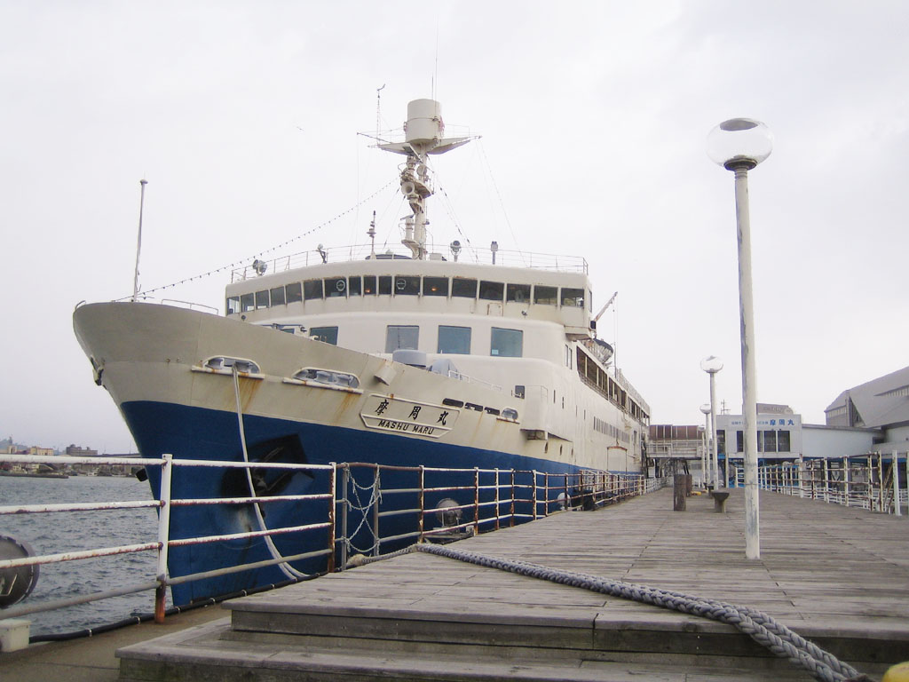 "Mashū-maru" (摩周丸), the ferry which formerly connected Aomori (青森) and Hakodate (函館) IMO number: 6512598